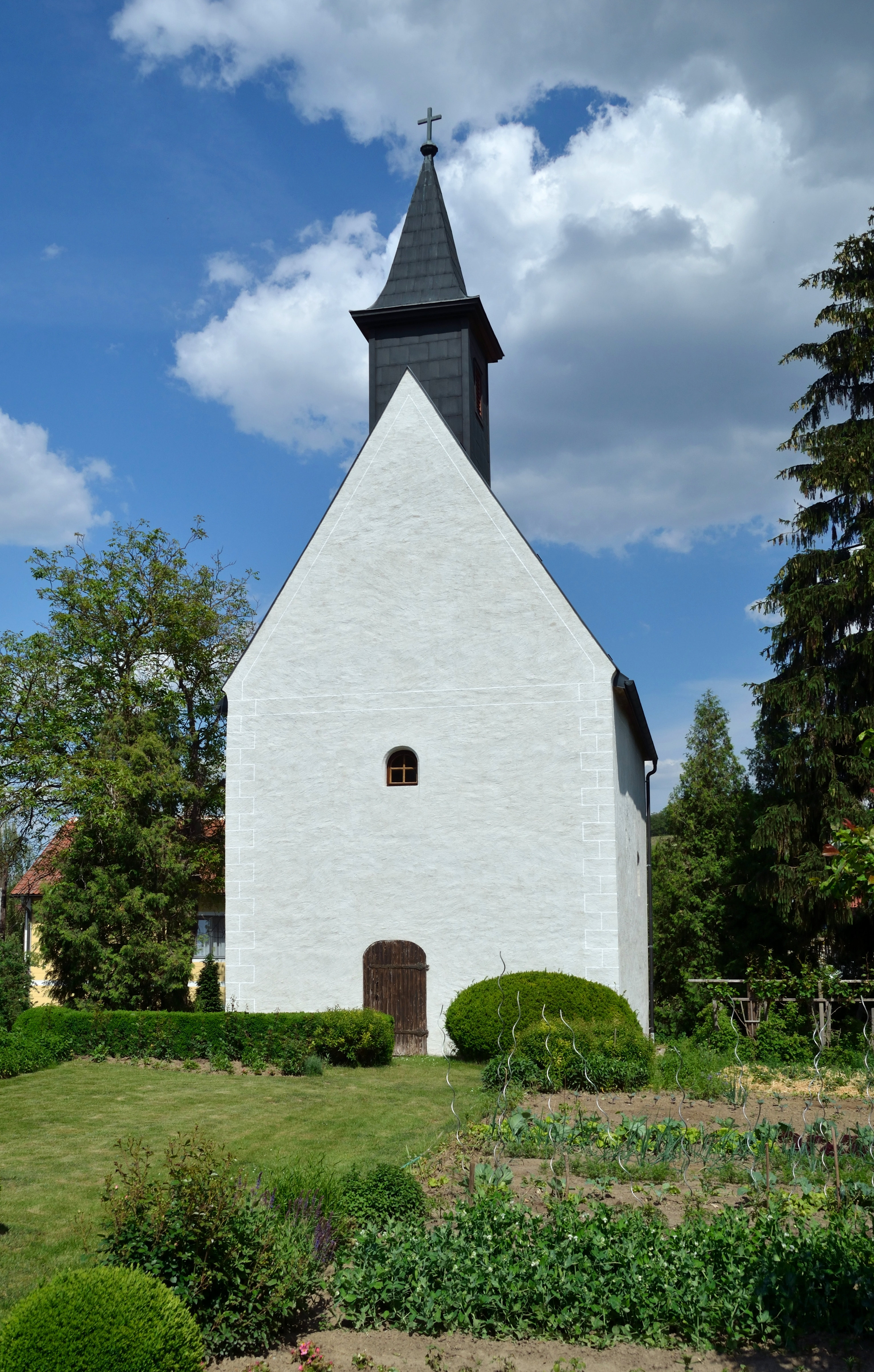 The subsididary church St. Laurentius in Haselbach, municipality of Weißenkirchen an der Perschling, Lower Austria is protected as a cultural heritage monument.